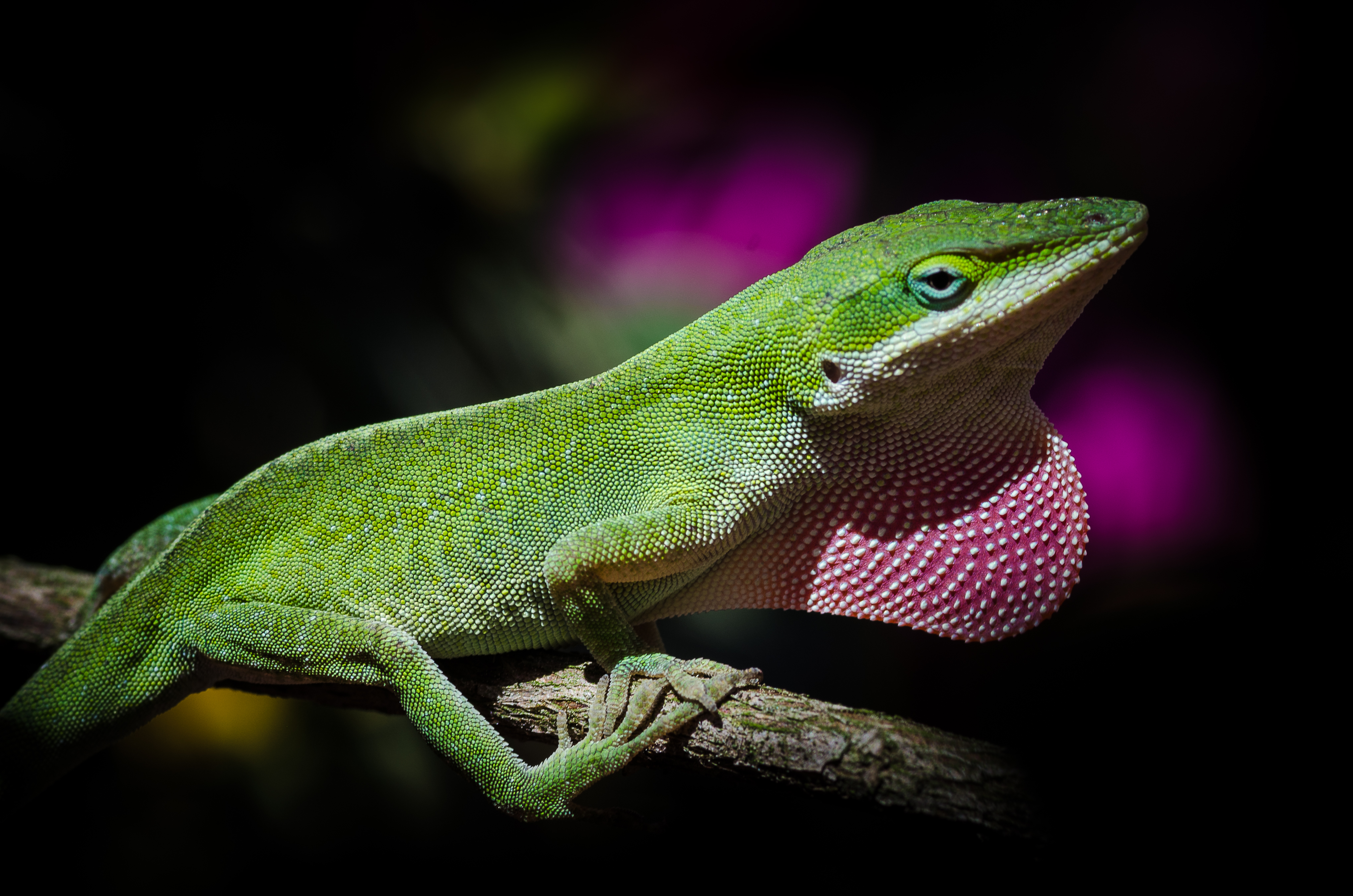 Anole Lizard, Dactyloidae